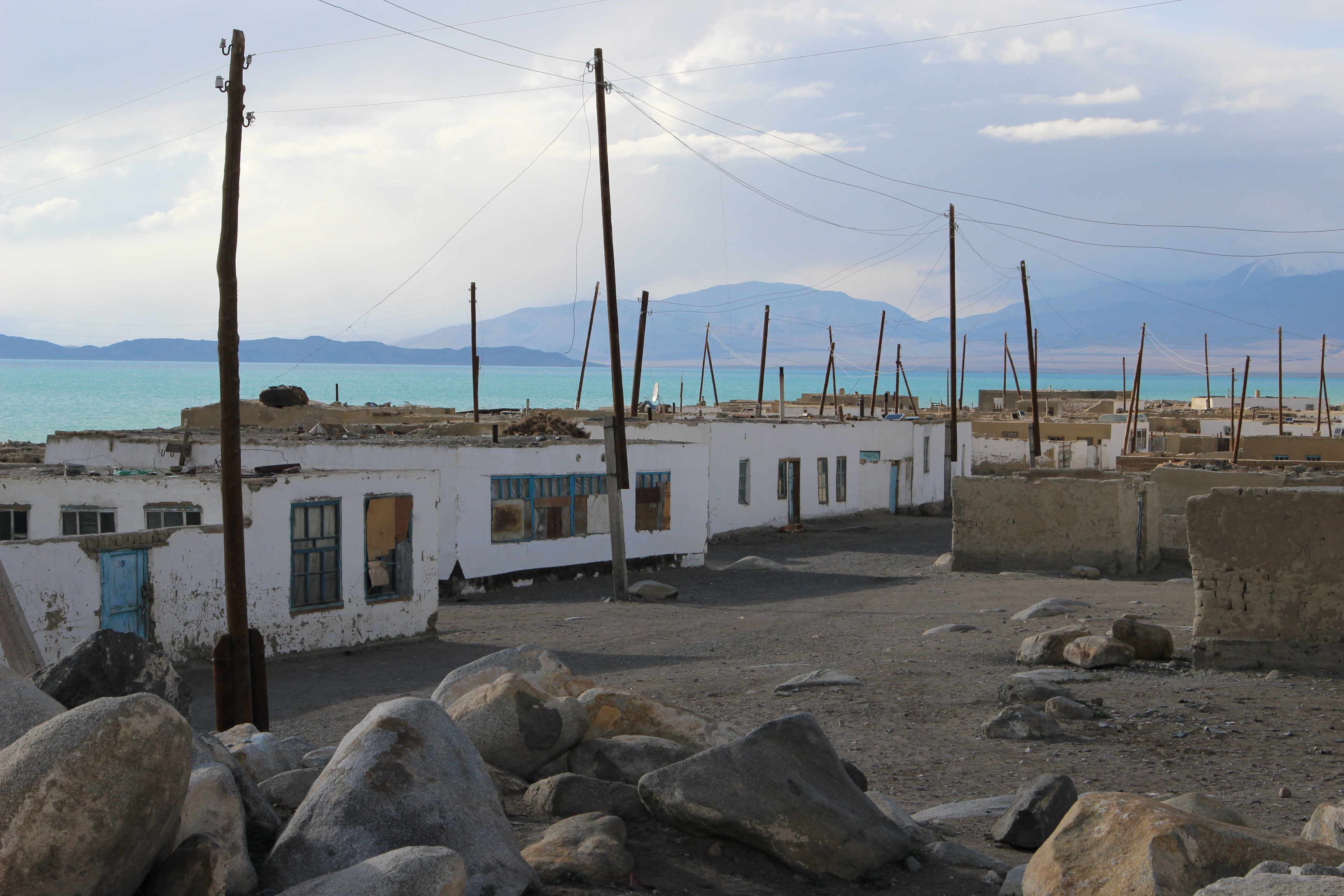 the village of Karakul in Tajikistan, in the background the Karakul lake